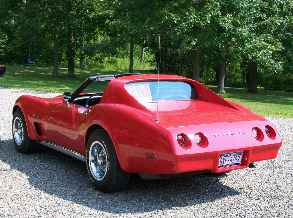 1974 Chevrolet Corvette, showing the distinct split rear panel which was only used for this model year.